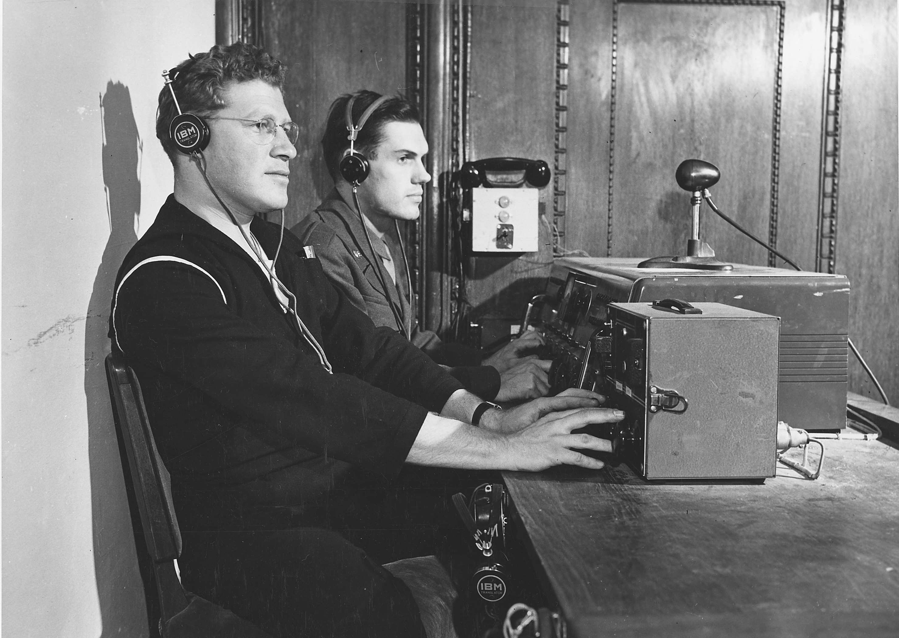 Scope and content: Seaman 2/C Herbert M. Greenspon of Bridgeport, Conn., and Pvt. Philip C. Erhorn of Garden City, Long Island, New York, operate the interpreting Device in the court room of the Palace of Justice, Nuernberg, Germany. The disk and film recording is controlled through this panel. 11/19/45.